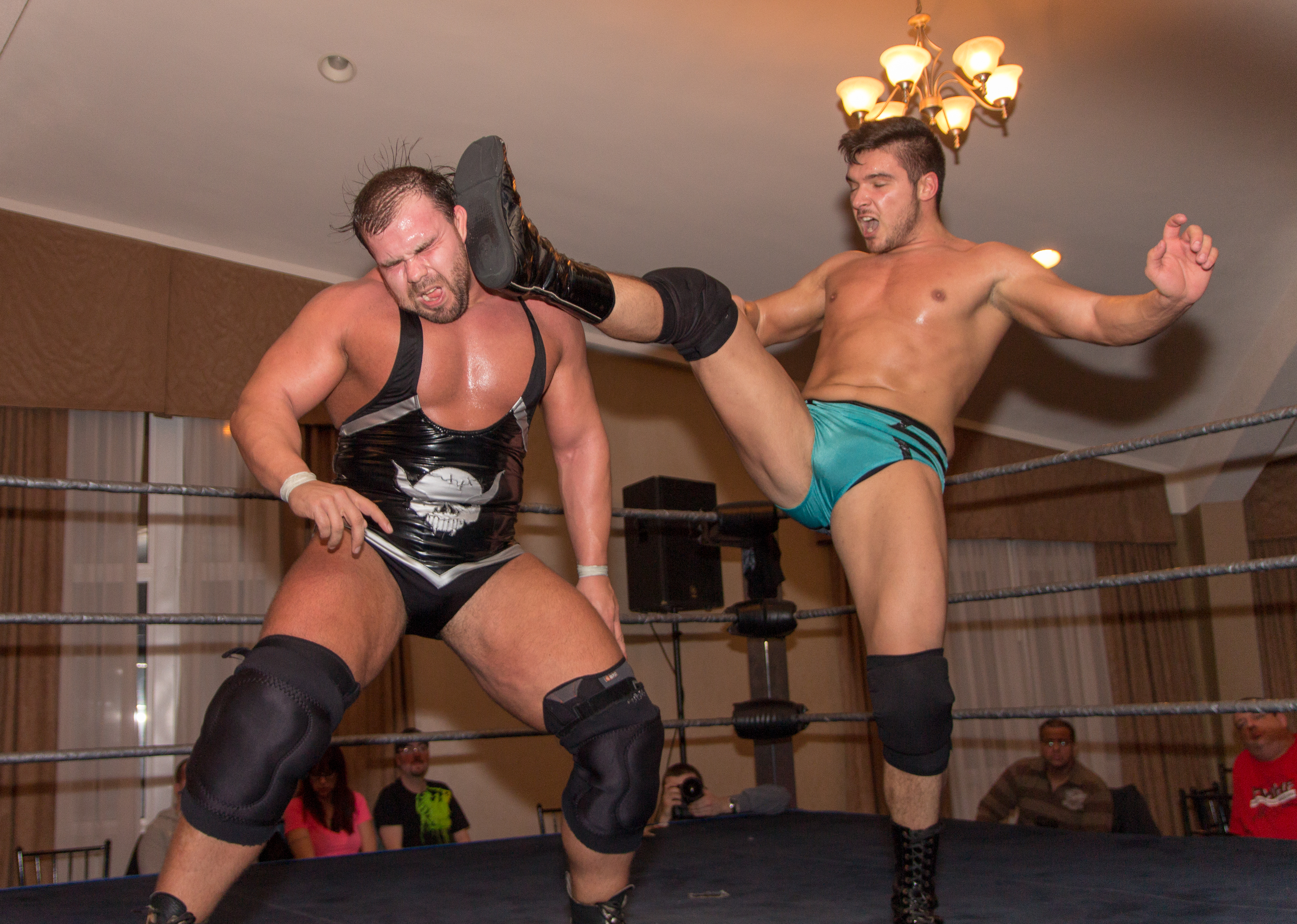 Ethan Page (right) hitting a big boot kick against Michael Elgin at a Pro BattleArts show in Oshawa, ON